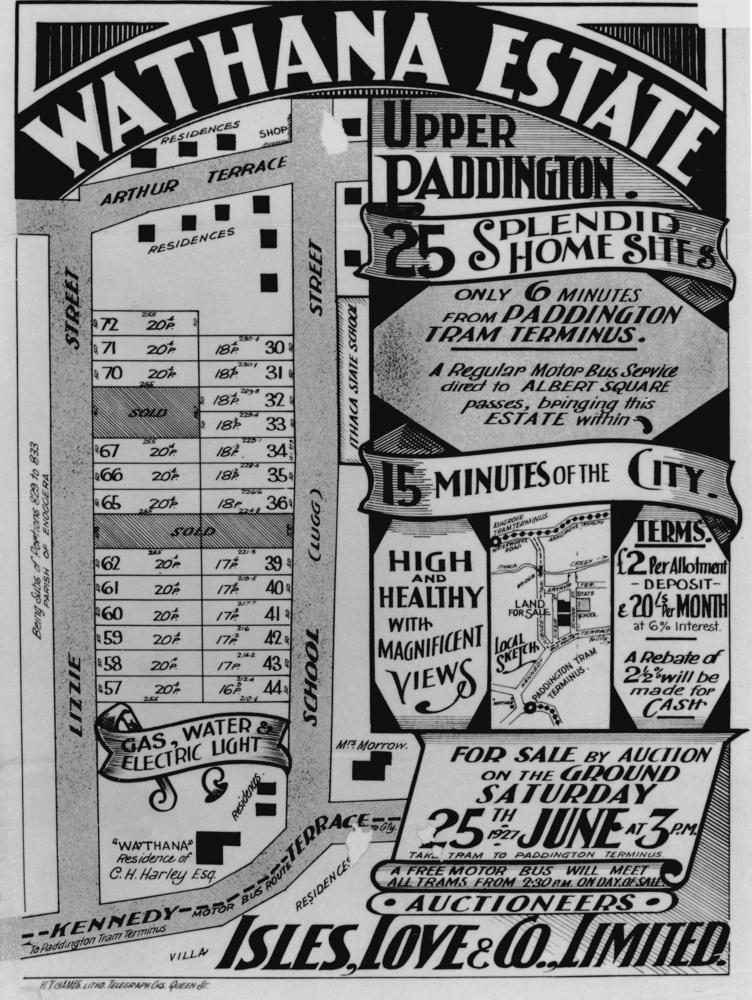 Land Sale map of the Wathana Estate in Paddington, Brisbane, 1927 Lot plans of land on Wathana Estate in Upper Paddington. The handbill features the Ithaca State School on Lugg Street and information on the terms of purchase as well as up to date information on tram and bus services.